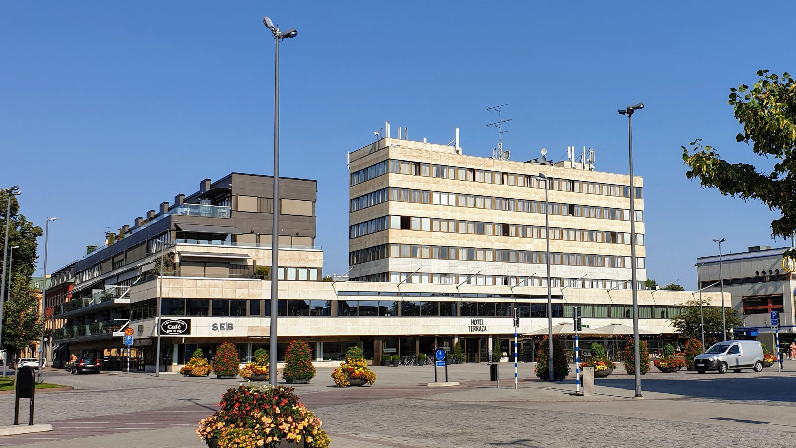 The Terazza building in Ljungby, Sweden, with Storgatan [Main Street] and Stora Torg [The Great Plaza] in the foreground. The building was finished in 1965. Picture taken after some major renovations of the plaza and surrounding area, and the expansion of two extra floors on the Terazzza building.